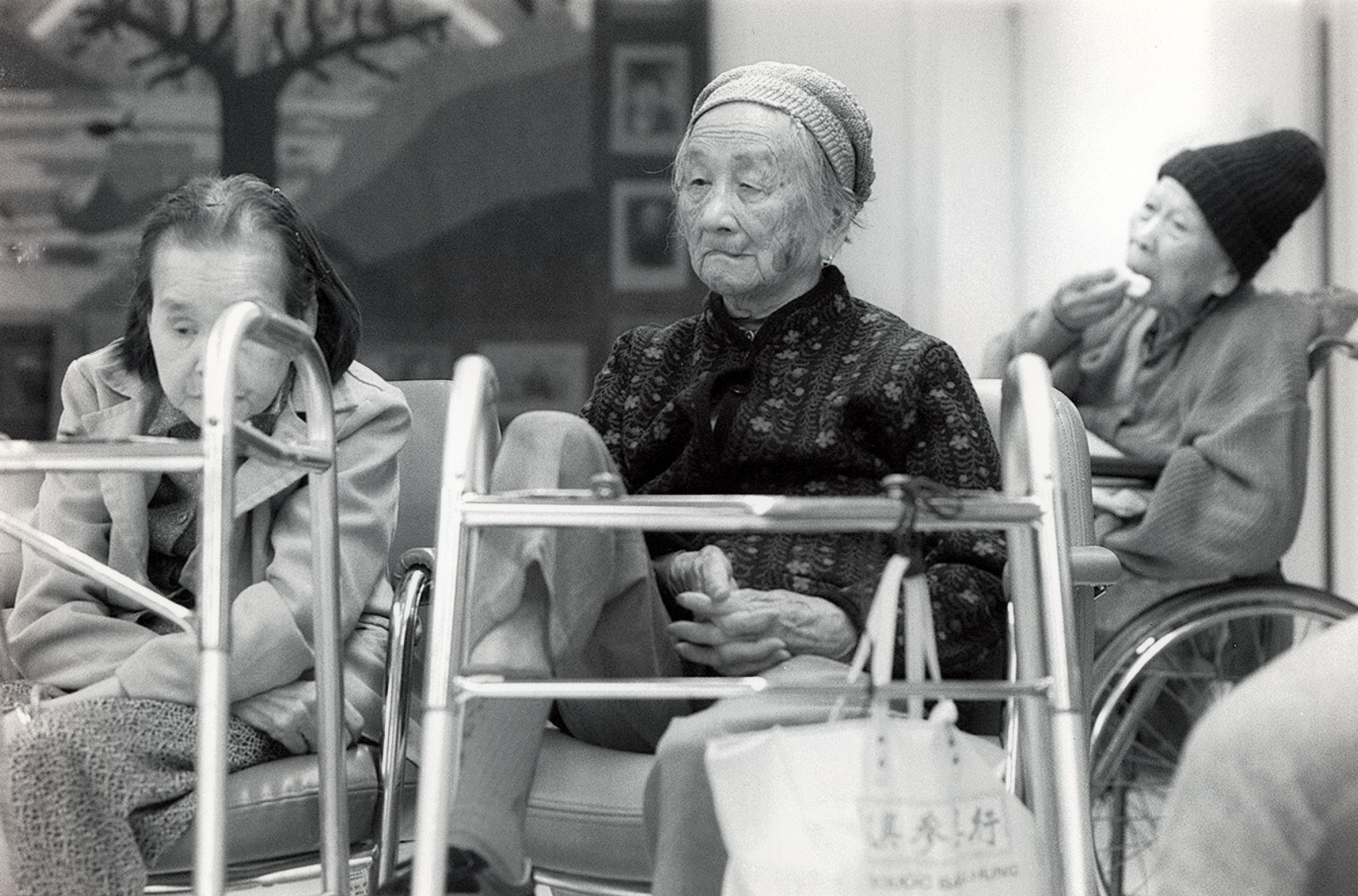 San Francisco's On Lok Senior Health Services day care program in the 1970s include seniors with their walkers.